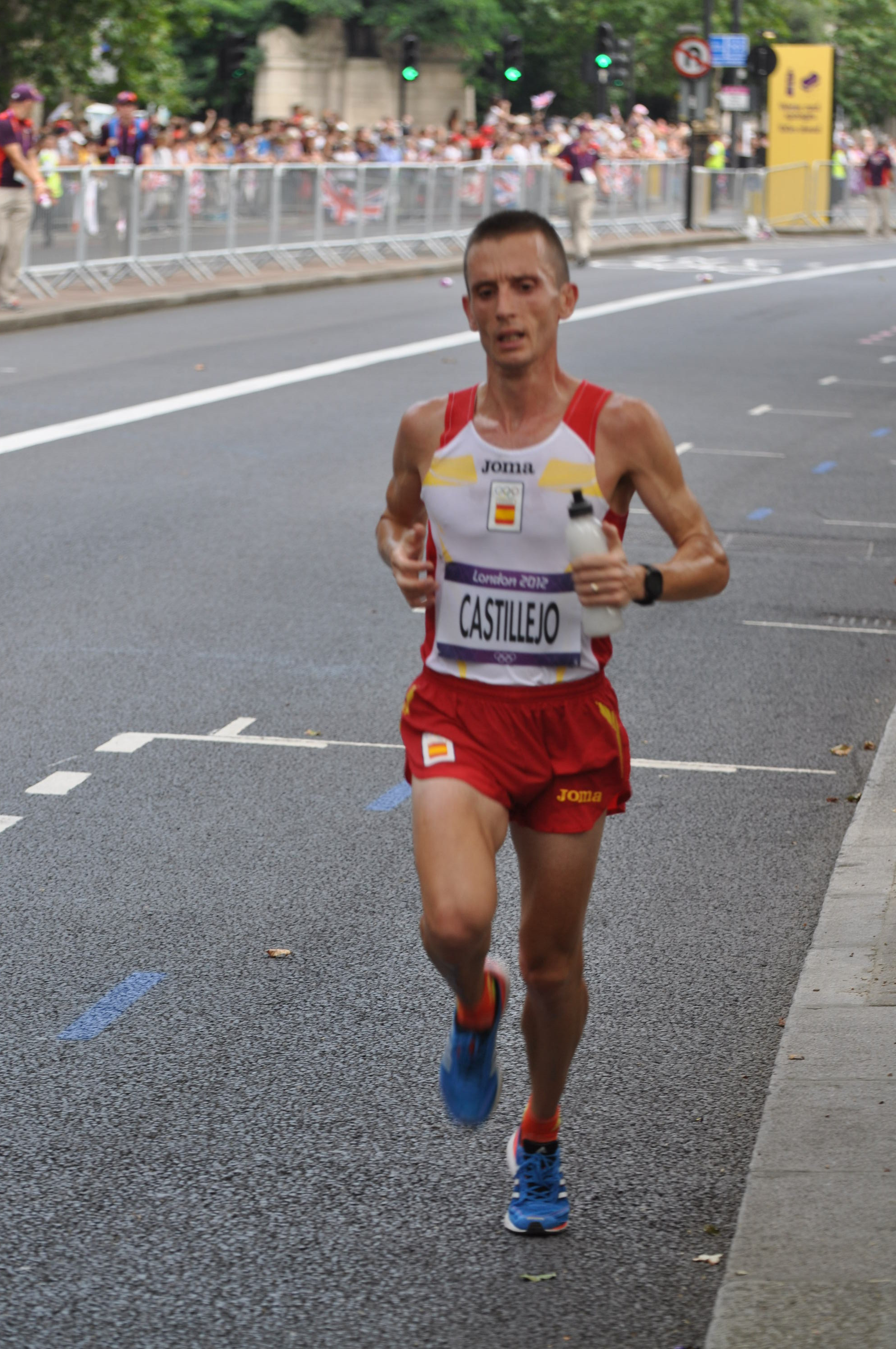 The men's marathon of the 2012 Summer Olympics in London, UK took place on an Olympic marathon street course on Sunday 12th August 2012 at 11:00. This was the final day of the 30th Olympic Games. The London 2012 marathon course is the standard Olympic distance of 26 miles 385 yards and consists of one short lap of approx 2.2 miles followed by three longer laps of 8 miles. The course began on The Mall and travelled past several of the most famous London landmarks. The start/finish line was near the Victoria Memorial. These photographs were taken at the Victoria Embankment. This featured several times on the looped course. The approximate location from the photographs is shown in the Google StreetView Link below. Stephen Kiprotich won in 2 hours, 8 minutes, 1 second as he pulled away from the Kenyan duo of Abel Kirui and Wilson Kiprotich Kipsang. These photographs are unofficial photographs. They are not endorsed by London 2012. There are not commercially available. They are available for use under a Creative Commons License. Please link back to the photograph on my Flickr account if you use the image.